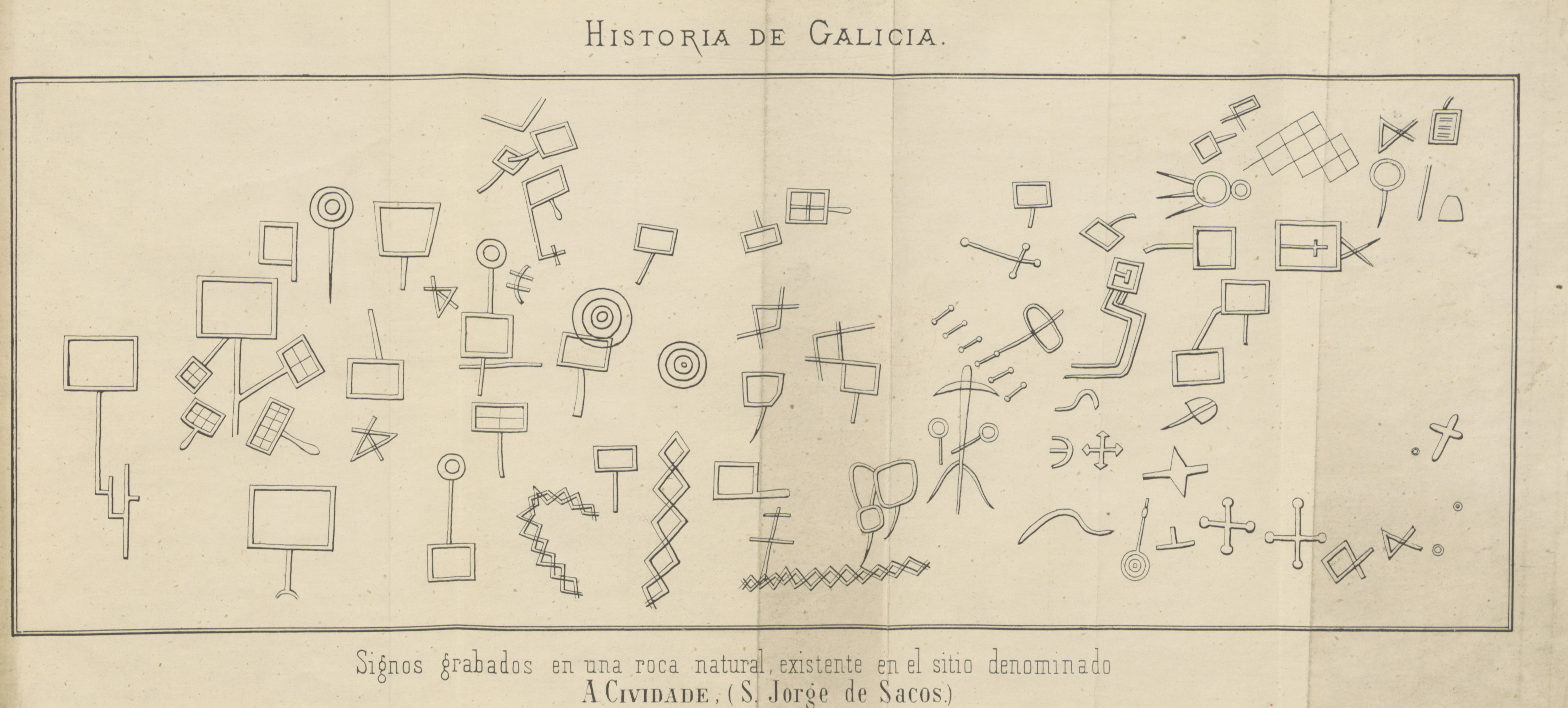 Image taken from: Title: "Historia de Galicia" Author: MURGUÍA, Manuel. Shelfmark: "British Library HMNTS 10161.d.6." Volume: 02 Page: 617 Place of Publishing: Lugo Date of Publishing: 1865 Issuance: monographic Identifier: 002588039 Petroglyphs from Eira dos Mouros in "A Cividade", S. Xurxo de Sacos (Cotobade), province of Pontevedra (Spain).